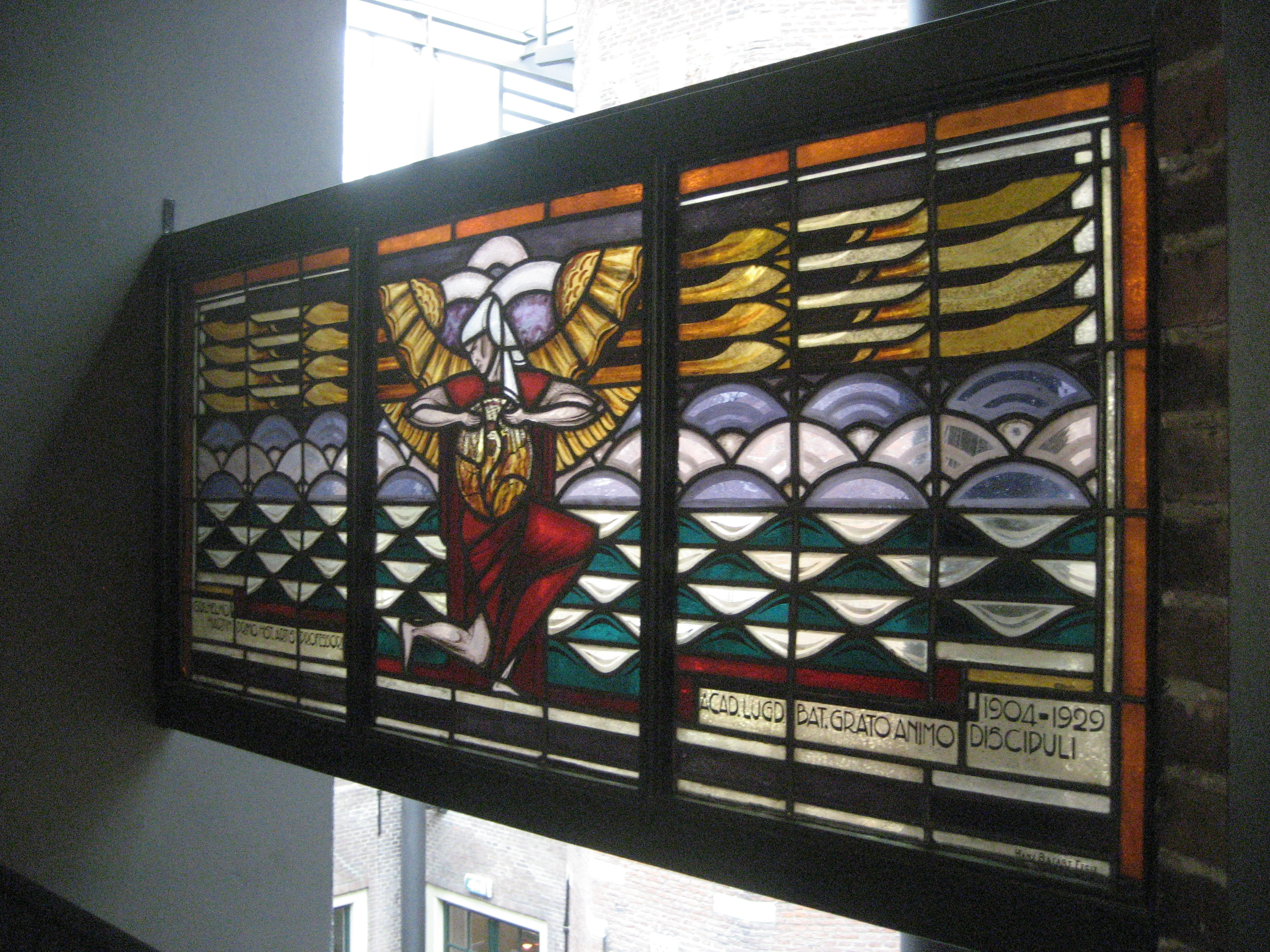 Stained glass window in Academiegebouw Leiden (The Netherlands) in honour of Wilhelm Martin (1876-1954, first professor art history in Leiden) by his pupils. Latin text: Guilhelmo Martin, Primo Hist. Artis Professor, Acad. Lugd. Bat., Grato Animo Discipuli 1904-1929. Signature right corner: "Hans Basarrt fecit" (=Henri Johan Marie Basart (1899-1988))